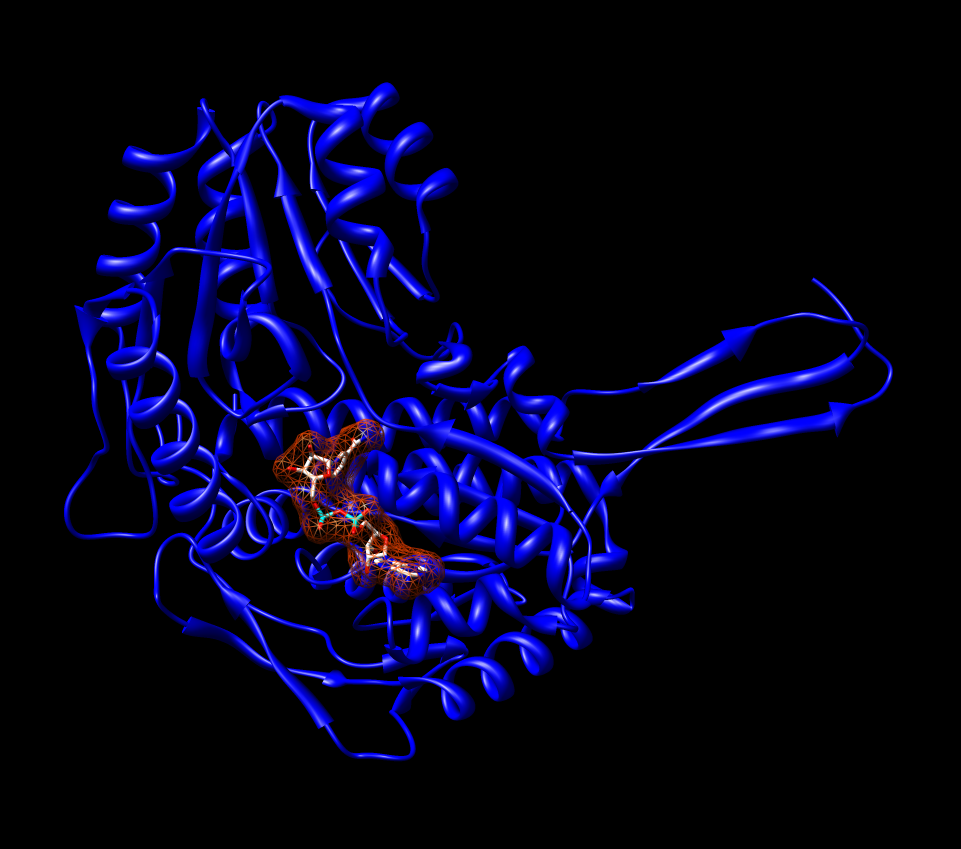 This Chimera image is of a subunit of the aldehyde dehydrogenase 2 with a space-filling model of NAD in the active site.